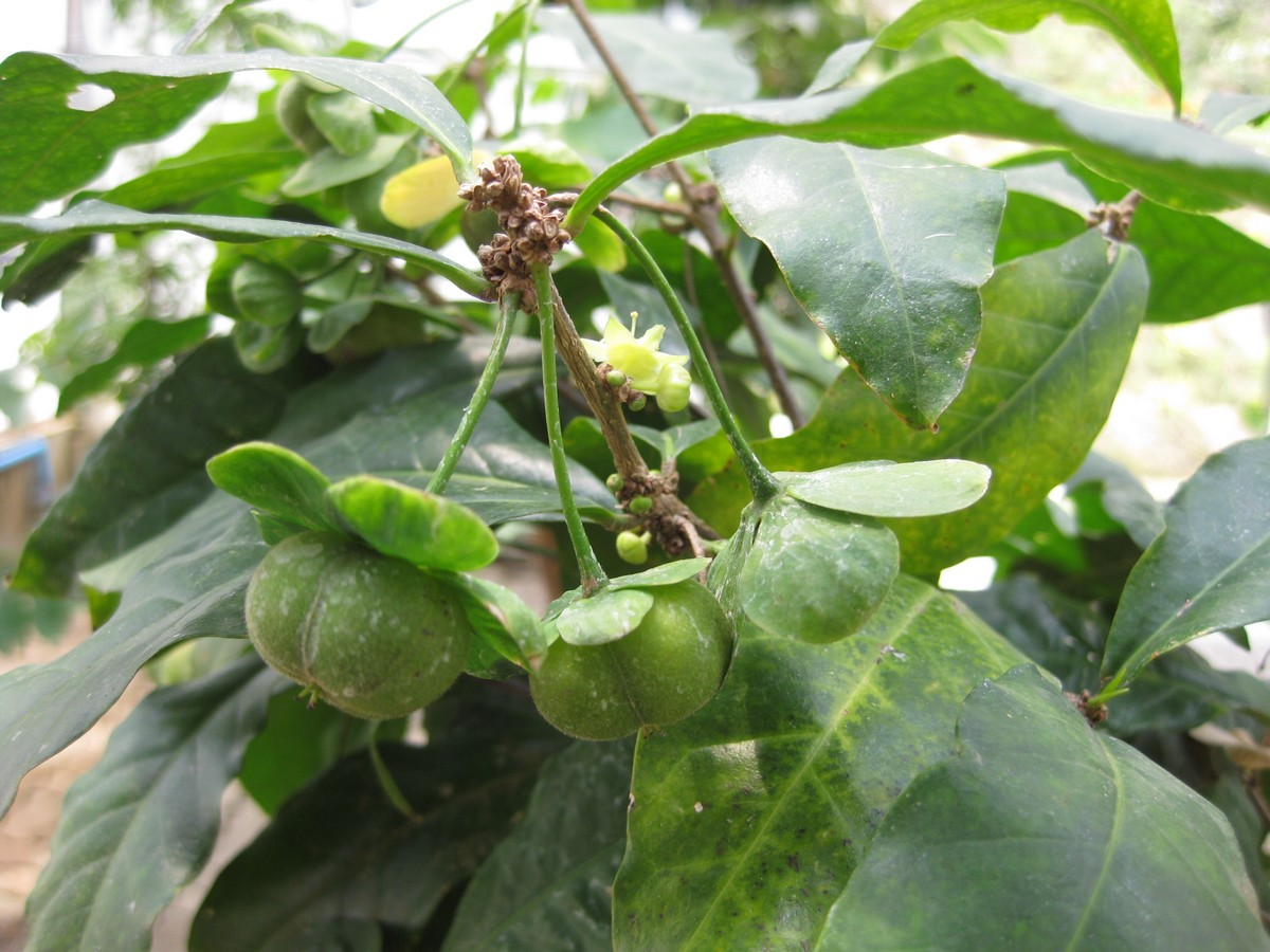 Actephila collinsiae Hunter ex Craib (syn. Actephila collinsae Hunter). Photographed at the Queen Sirikit Botanic Garden (Chiang Mai Province, Thailand) in March